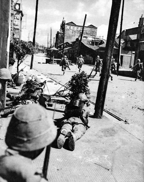 IJA soldiers during the battle of Changsha, September 1939